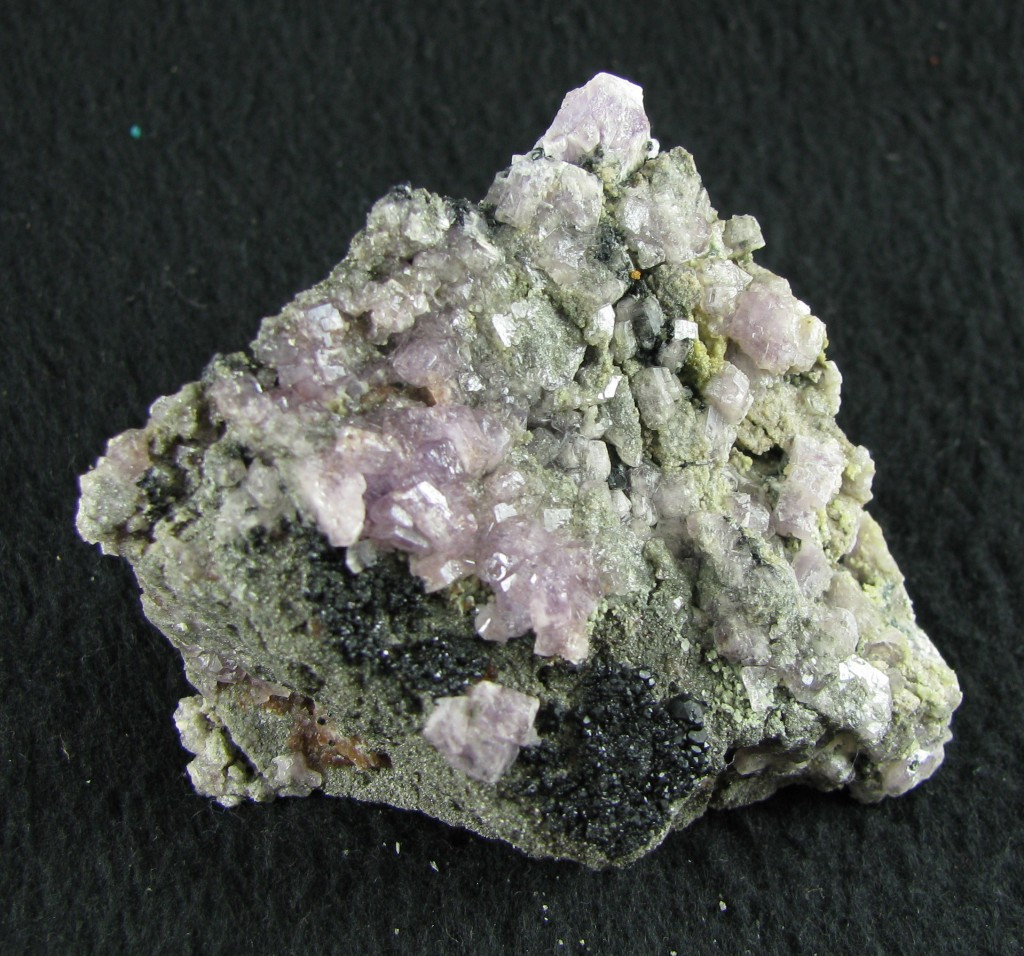 Coquimbite, Voltaite Locality: Dexter No. 7 Mine, Calf Mesa, San Rafael District (San Rafael Swell), Emery County, Utah, USA Original description: A simply outstanding small cabinet (2 x 2 x 2 inches appx.) specimen of Coquimbite with a large patch of Voltaite crystals. Very rare this fine. Also has Romerite and probable Goldichite on the specimen!